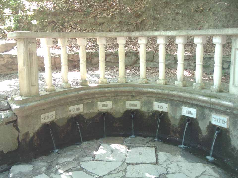 The Seven Springs in Kőszeg, Hungary